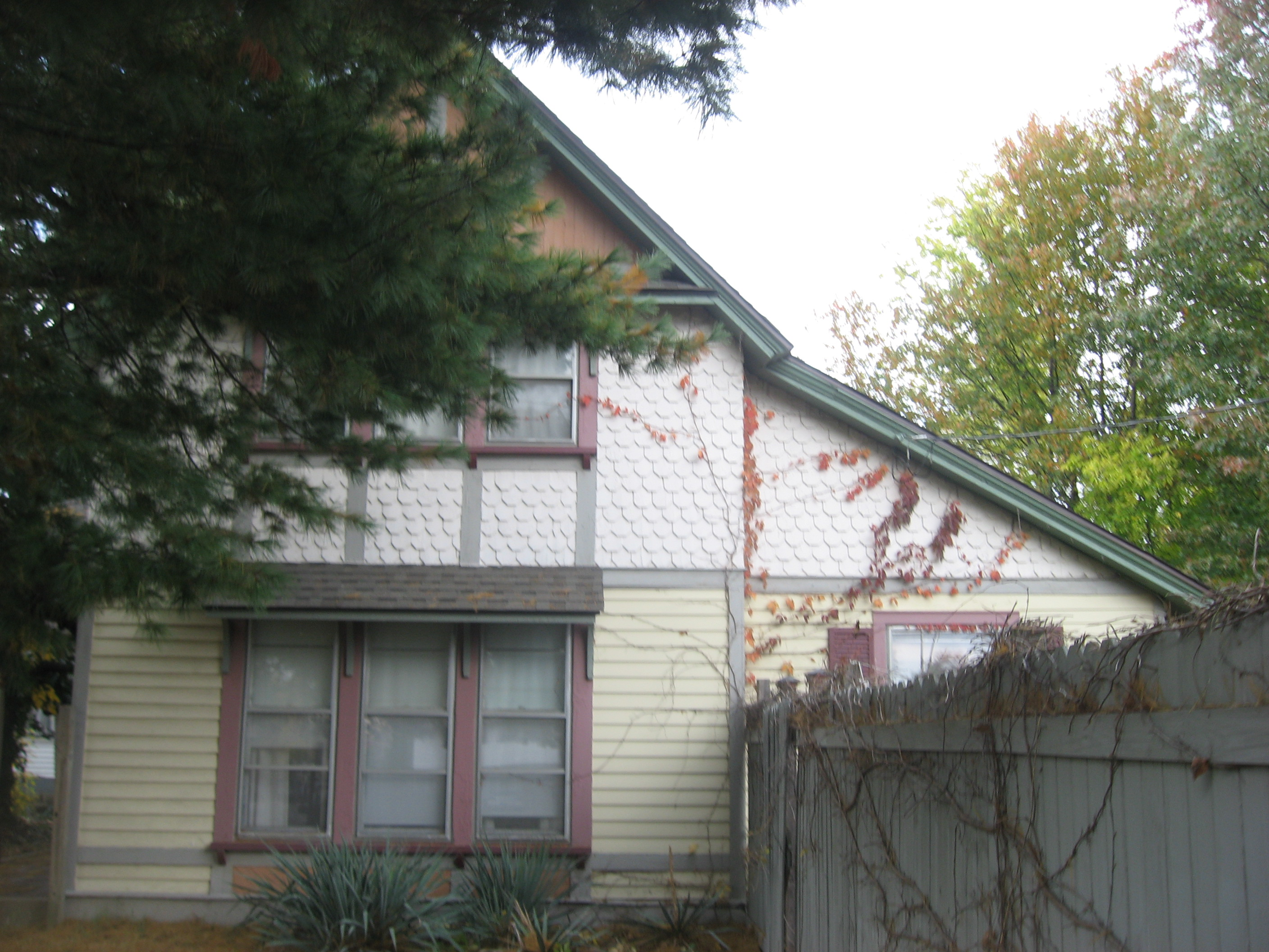 Southern side of the Reef House, located at 411 S. Poplar Street in Carbondale, Illinois, United States. Built in 1890, it is listed on the National Register of Historic Places.